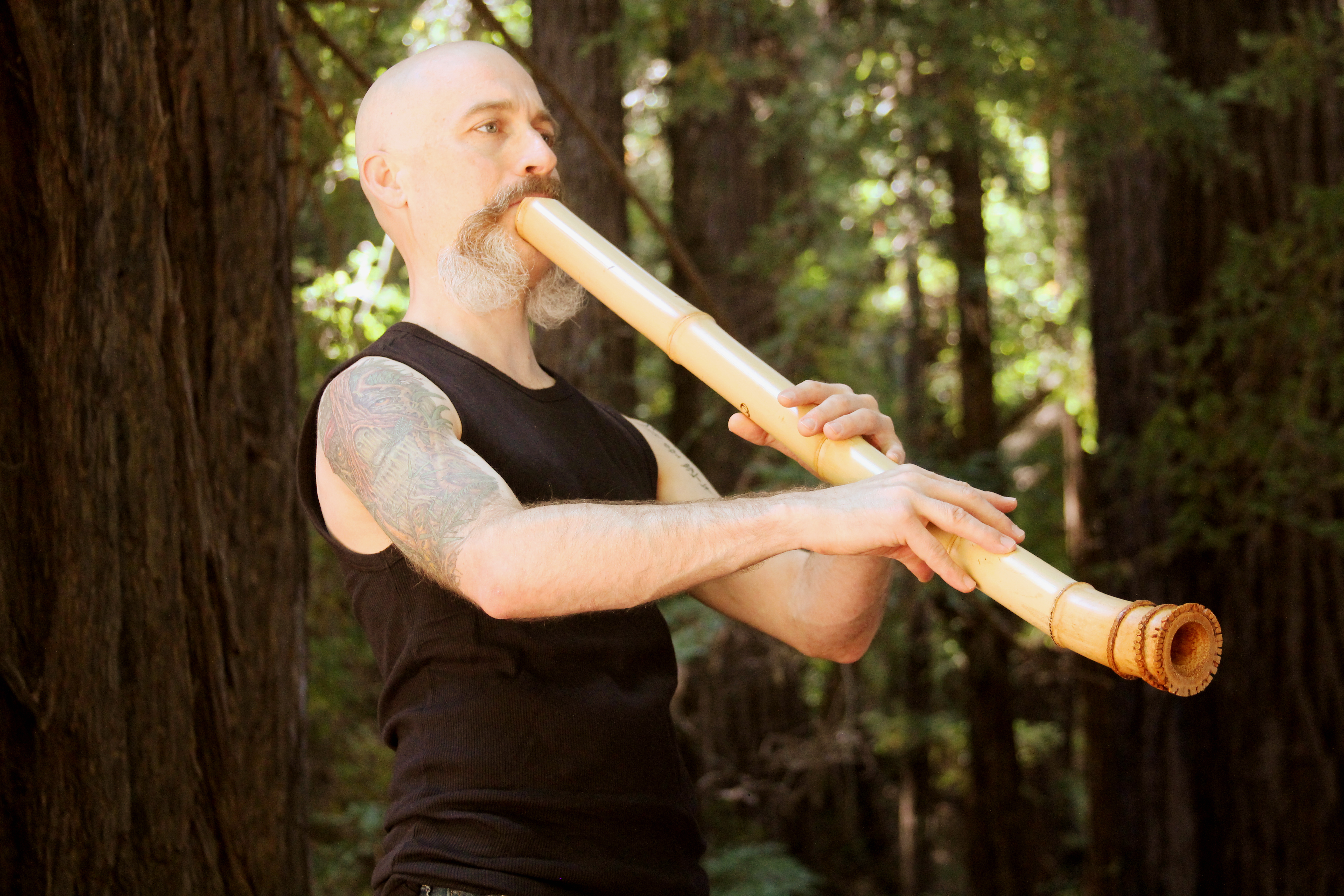 Cornelius Boots playing a Taimu shakuhachi bamboo flute near redwood trees.